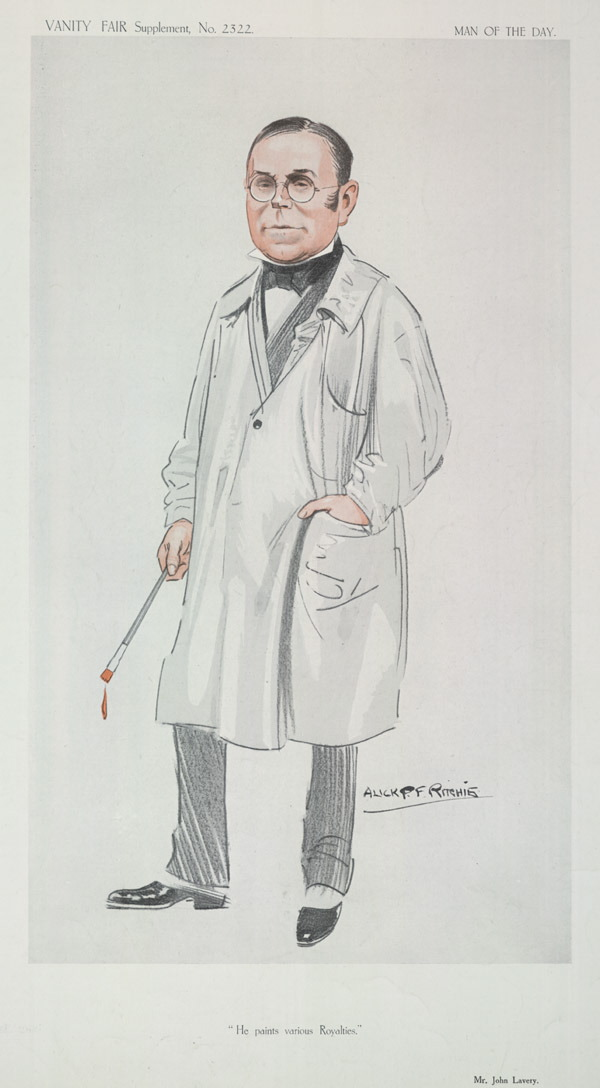 Men of the Day No.2322: Caricature of Mr John Lavery RSA RHA ARA HROI. Caption reads: "He paints various Royalties"